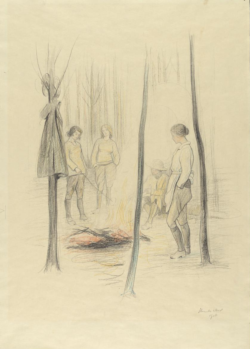 Three uniformed members of the Women's Forestry Corps standing around a fire in a wood.